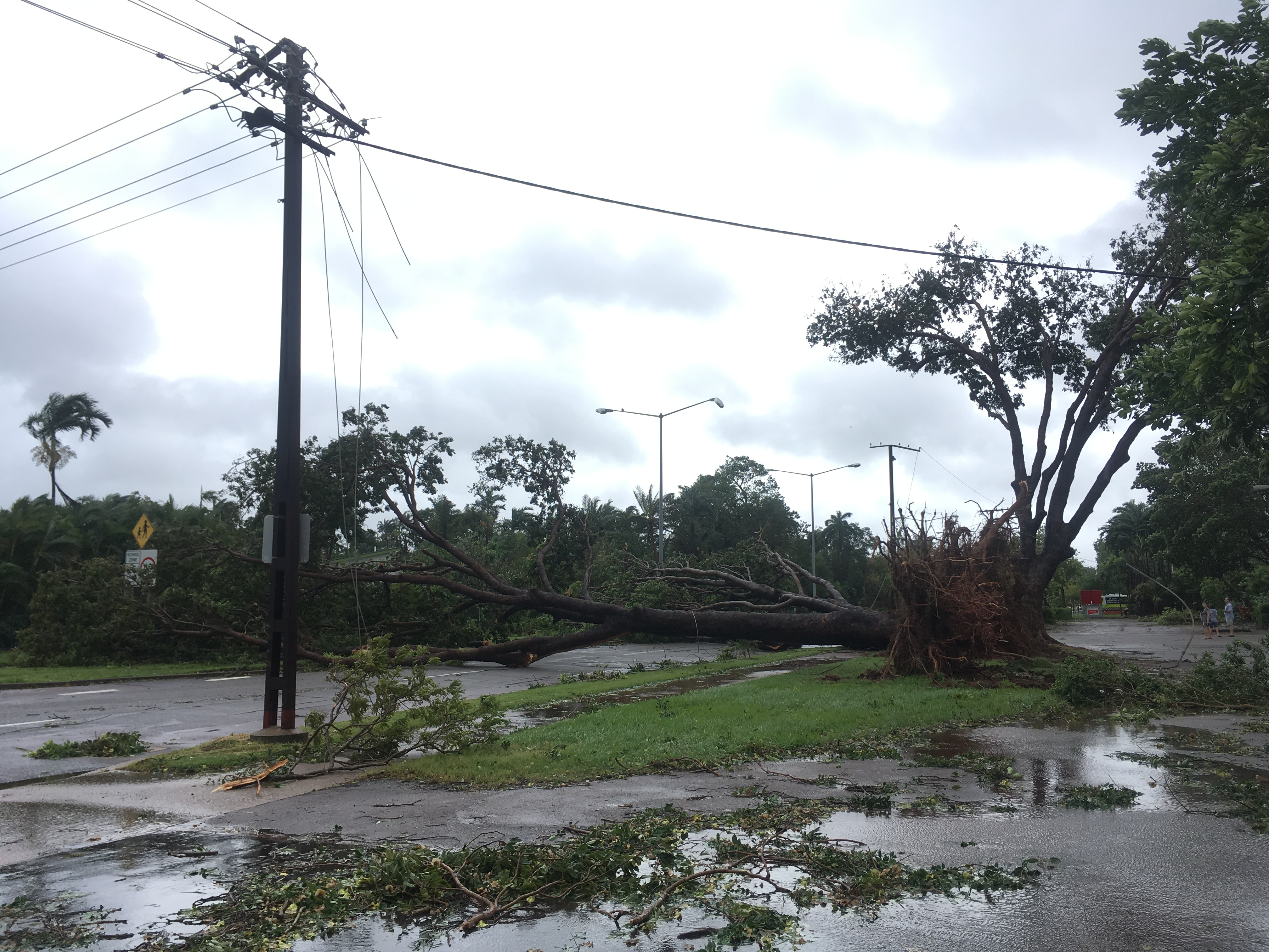 Tree and power line damage in Parap, Darwin from Cyclone Marcus in March 2018.